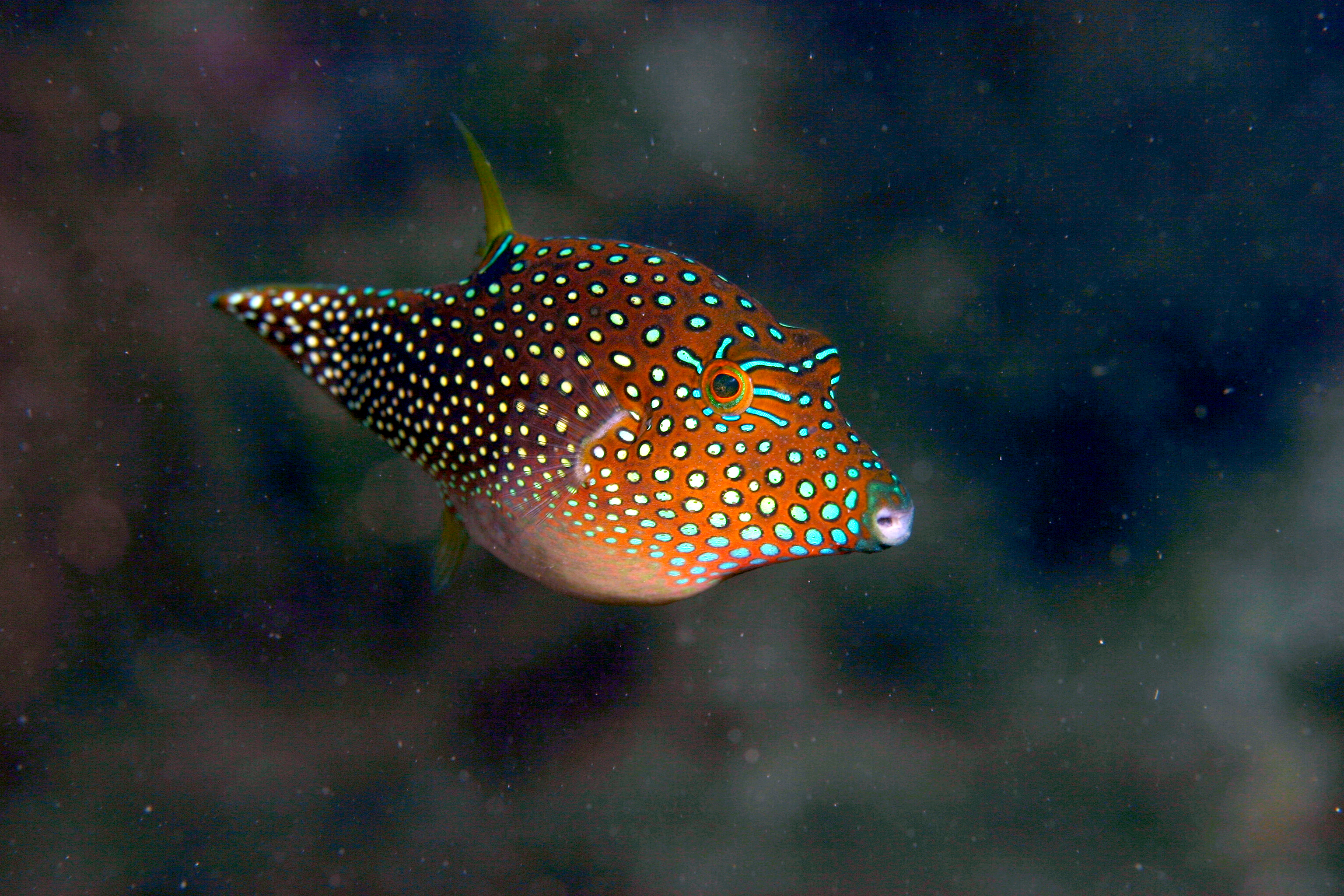 Canthigaster_solandri pufferfish